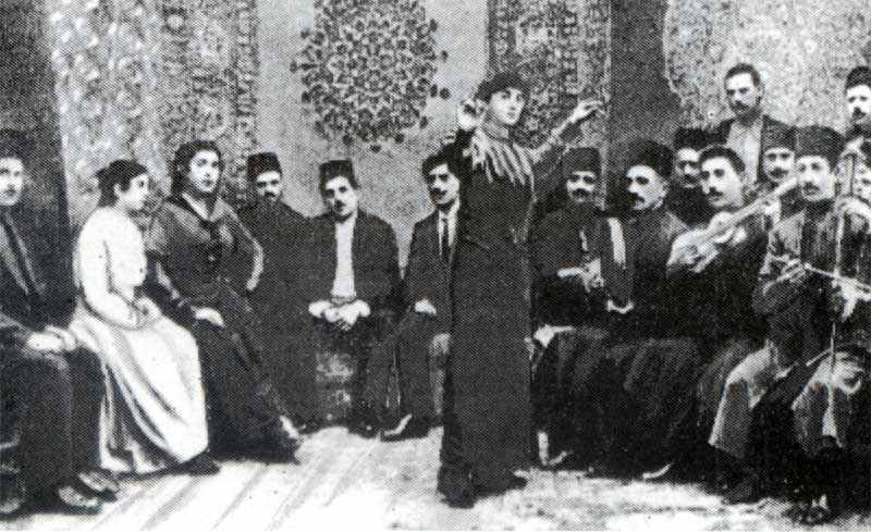 Cadre from the film "In oil and millions kingdom"